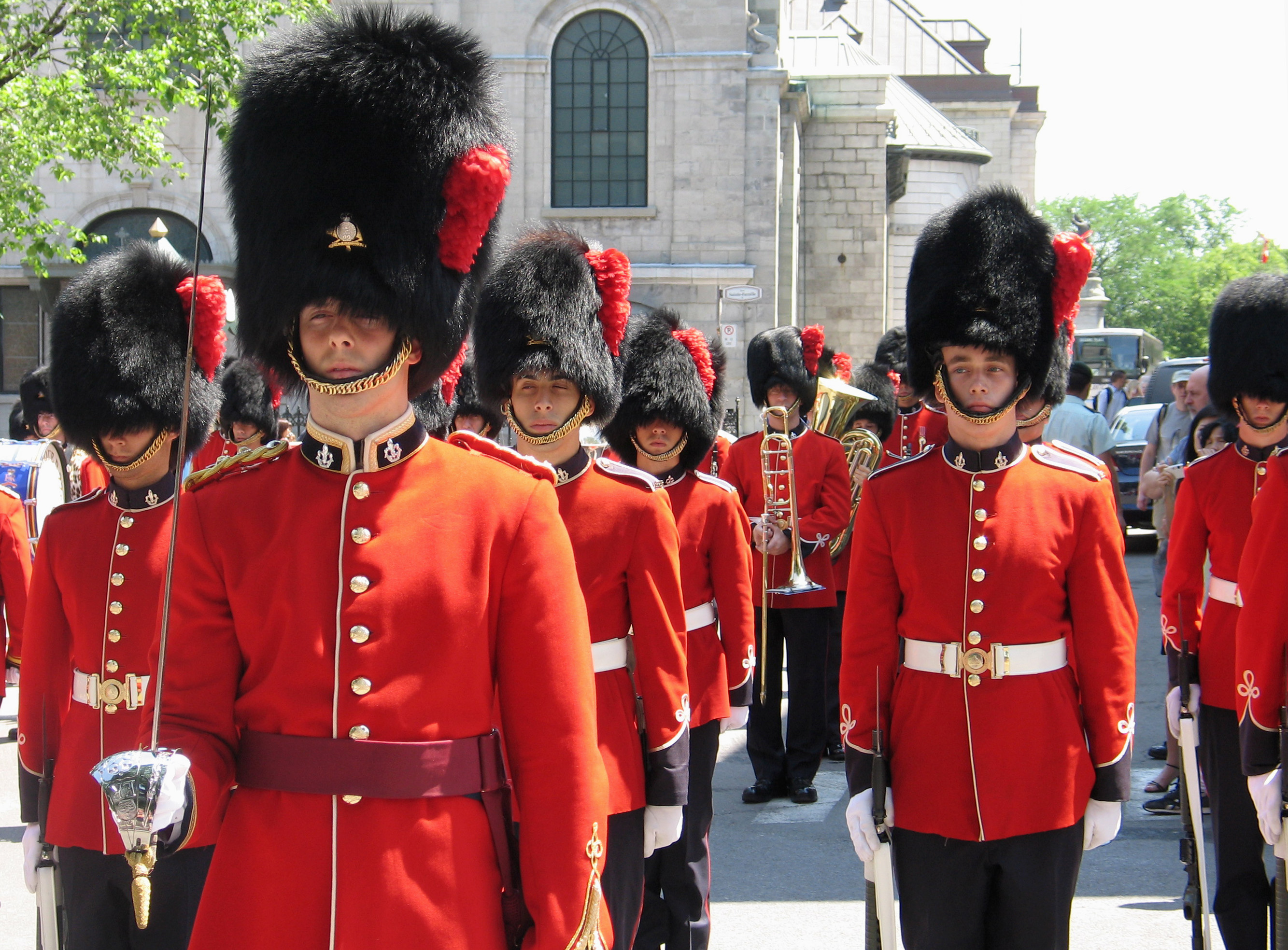 The Royal 22e Régiment of the Canadian Forces exercising its Freedom of the City in front of City Hall, during the celebration commemorating the 398th anniversary of Quebec City, on July 3, 2006.